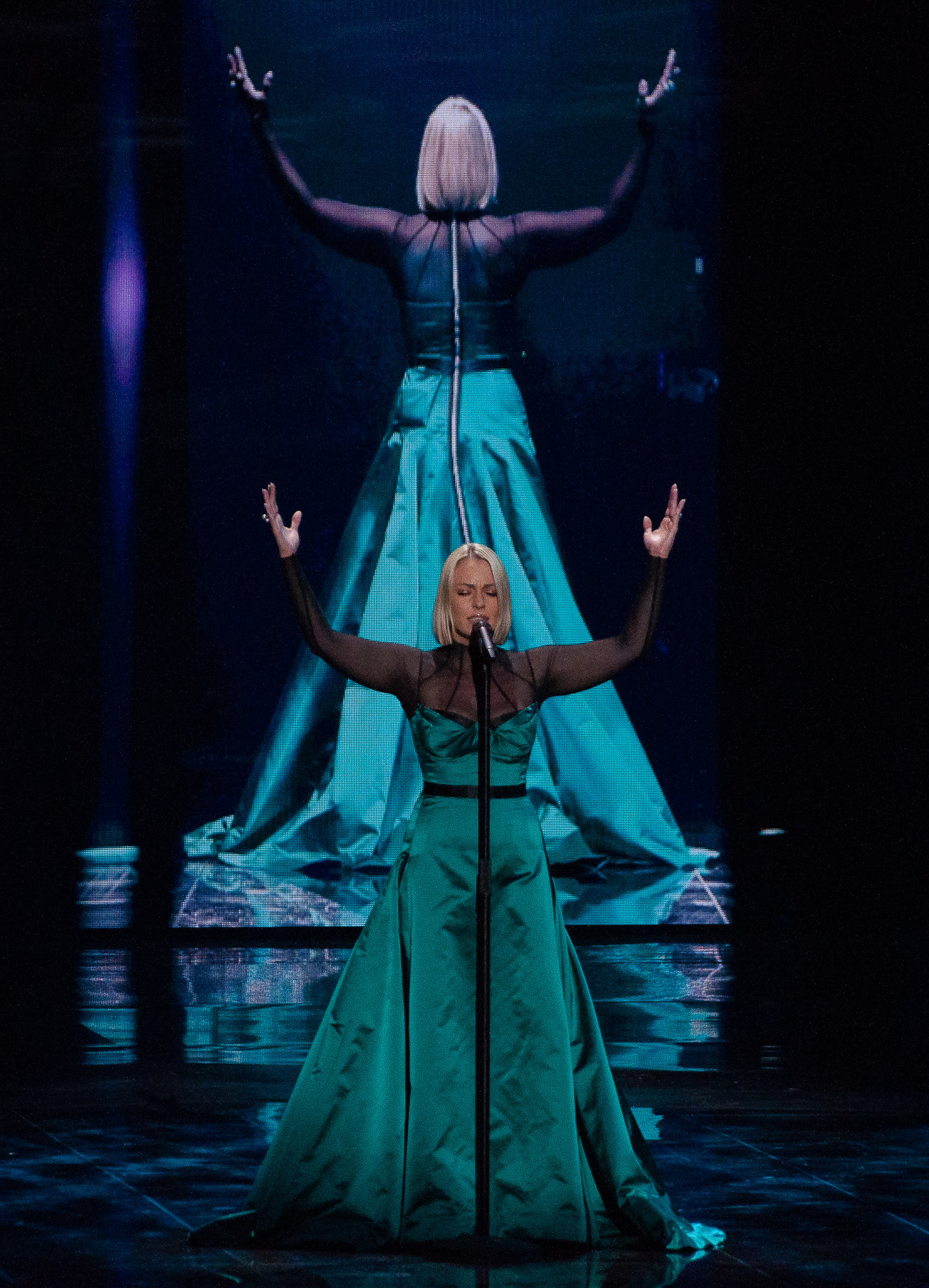 At the 2019 Eurovision Song Contest Semi-final 2 dress rehearsal